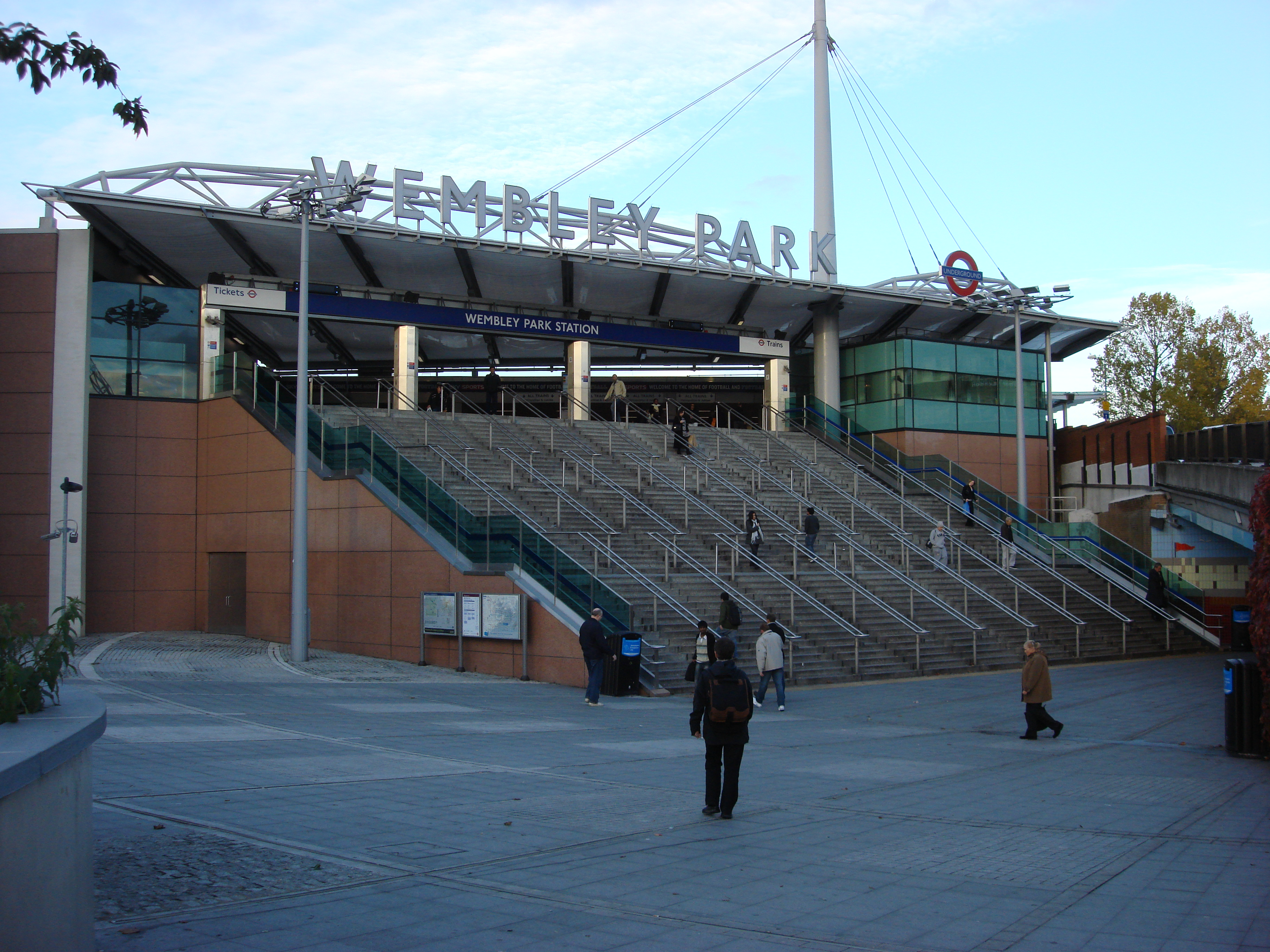 Wembley Park tube station entrance